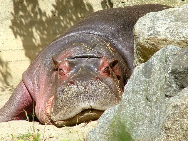 The female Hippopotamus "Bulette" that was born in 1952 at the Leipzig Zoological Garden. Shortly afterwards, it was transferred to the Berlin Zoological Garden were it lived until its death in 2005. During its lifetime of 53 years, it gave birth to more than 20 offspring. Bulette, named after a German word for "hamburger" or "meatball", was one of the most popular animals of the Berlin Zoological Garden and well known in Germany as a symbol of the Zoo.